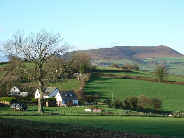 Chwarelau Farm With Ysgyryd Fawr providing the background.